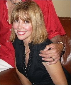 Migdia Chinea in Santa Monica, CA